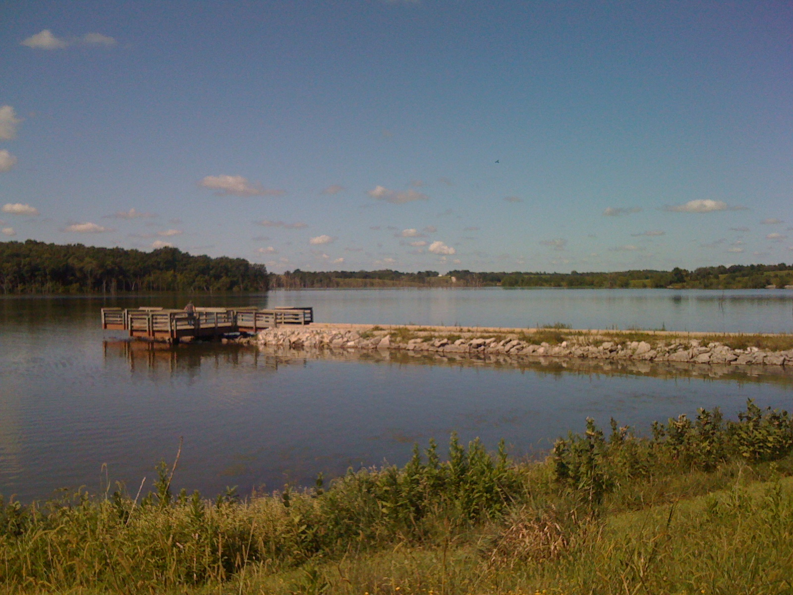 Photo of Lake Sugema in Van Buren County, Iowa. Taken looking southwest across the lake from the Lacey Trail parking lot entrance on the north side of the lake.